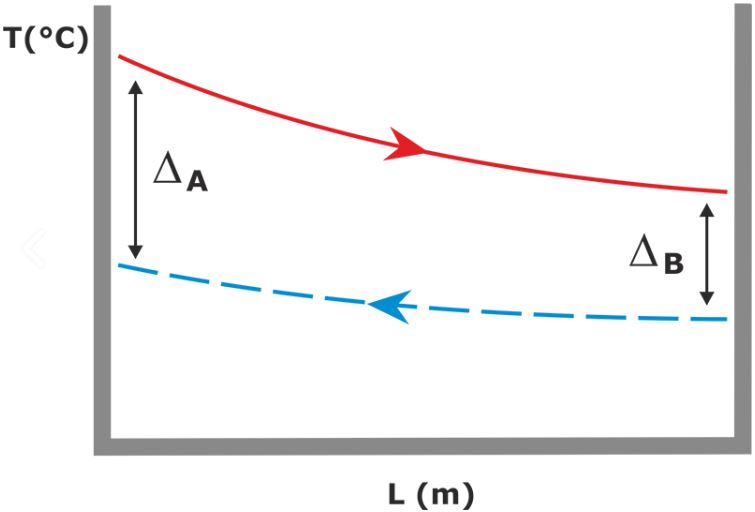 Temperature profile illustration of dTA and dTB for a countercurrent heat exchanger